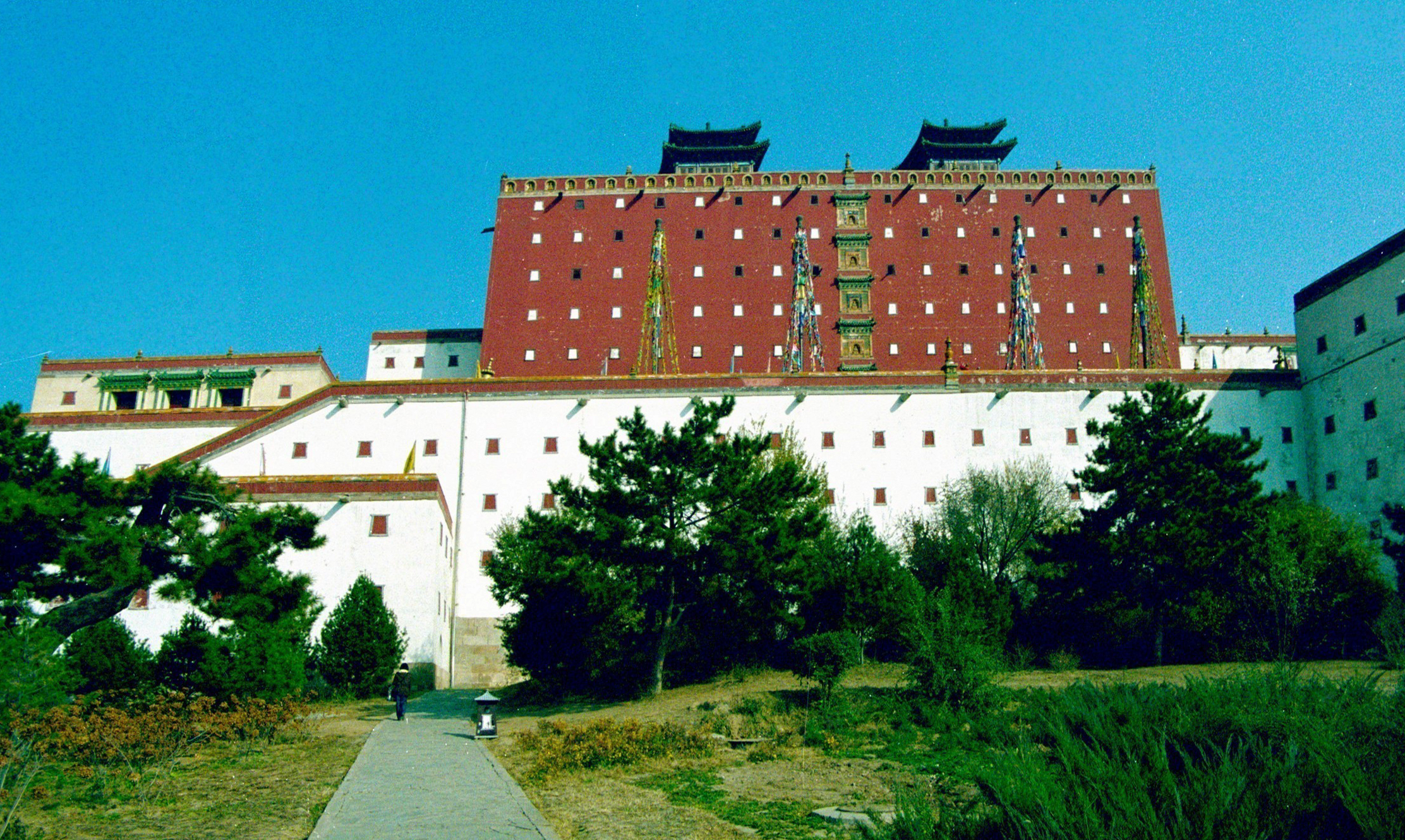 The Main Red building of Putuo Zongcheng temple, Chengde 中文（中国大陆）: 普陀宗乘之庙大红台